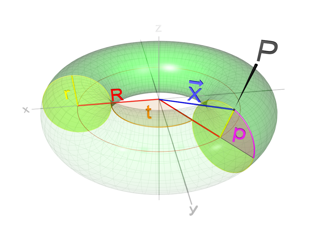 Illustration of the geometrical torus